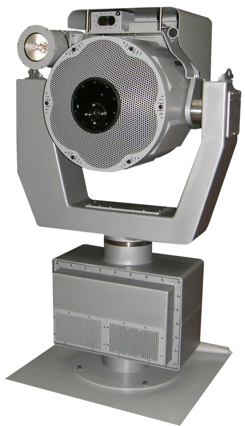 Multirole Acoustic Stabilized System